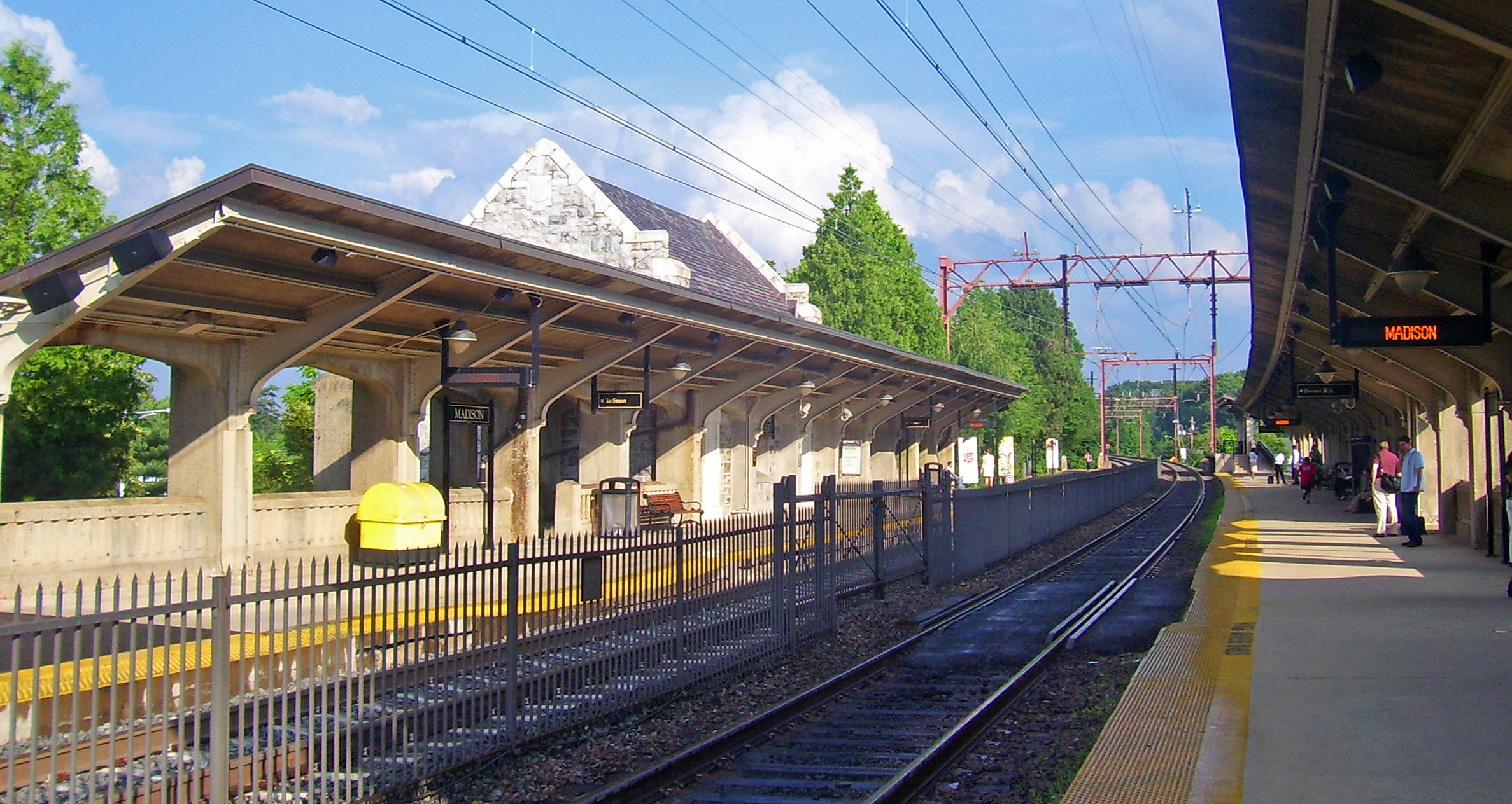 Looking east from the platform at the Madison, NJ, USA, train station